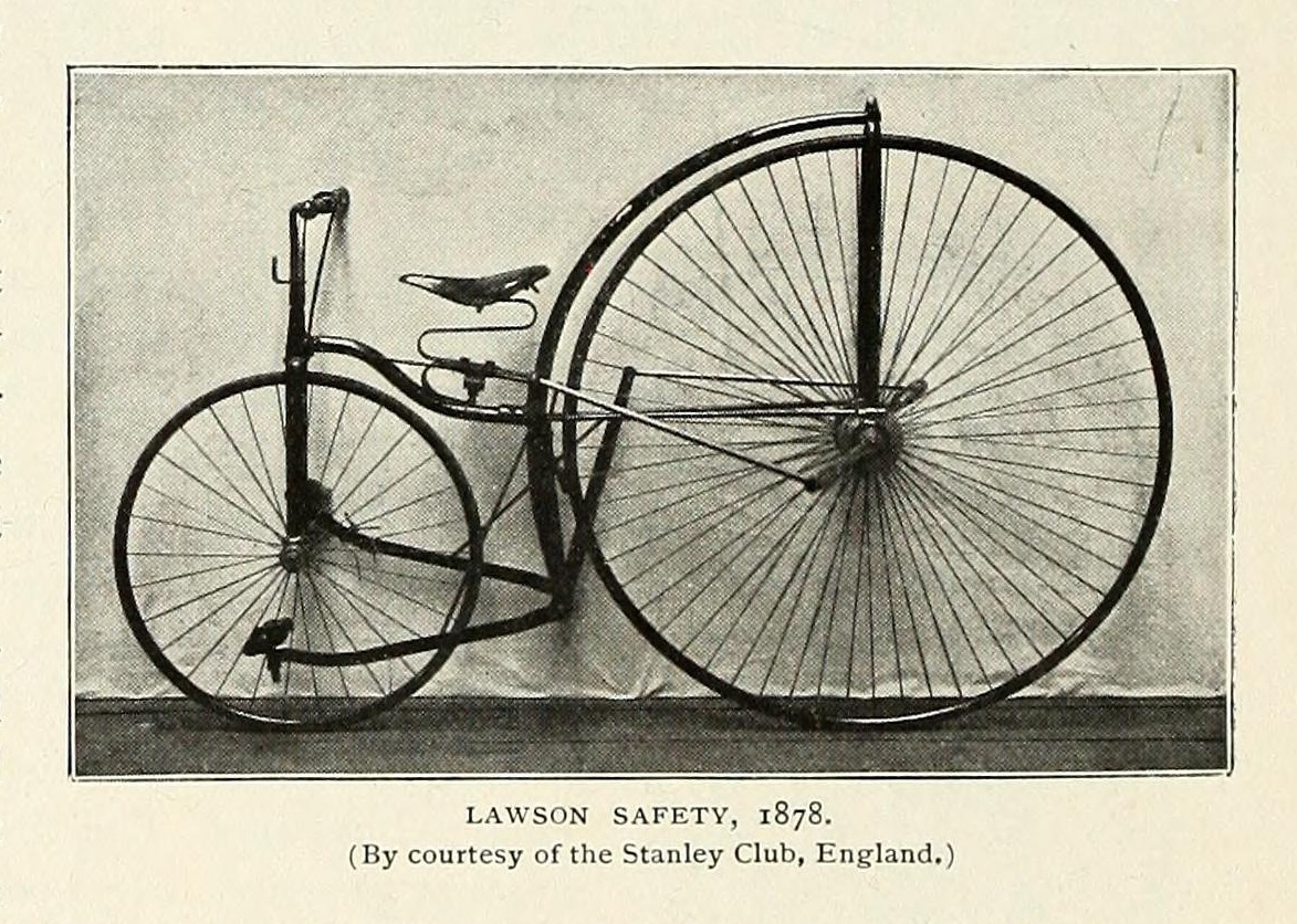 Images of bicycle designs by Harry John Lawson